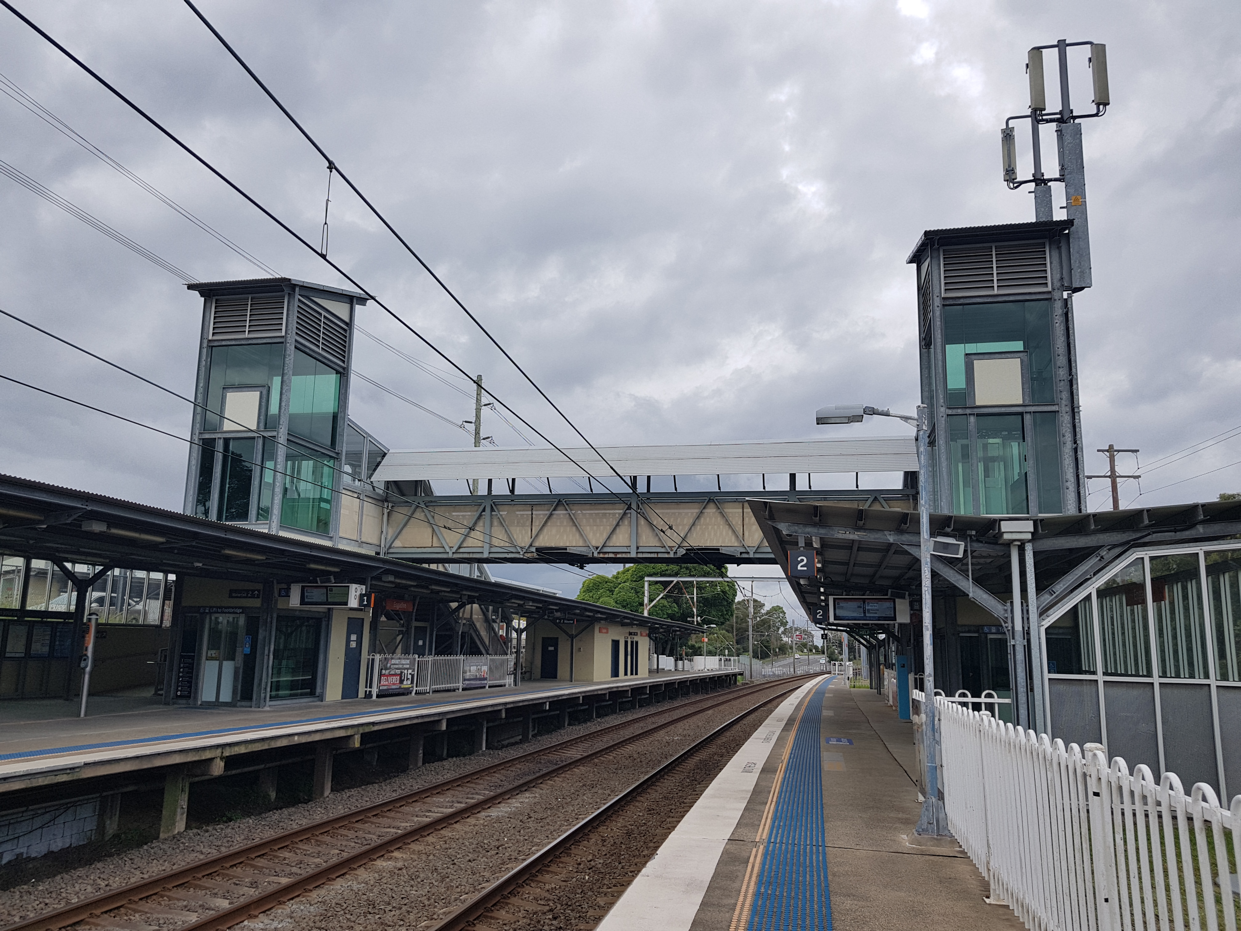 Engadine railway station, Sydney